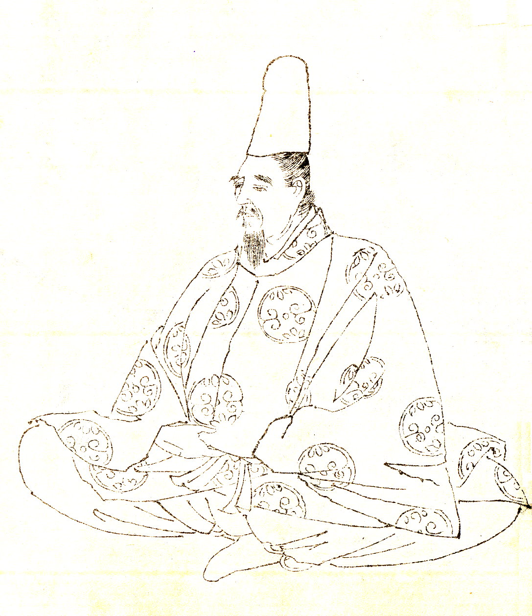 Tanba no Masatada（丹波雅忠）was a Japanese doctor in Heian period.This picture was published in 1903.3.13